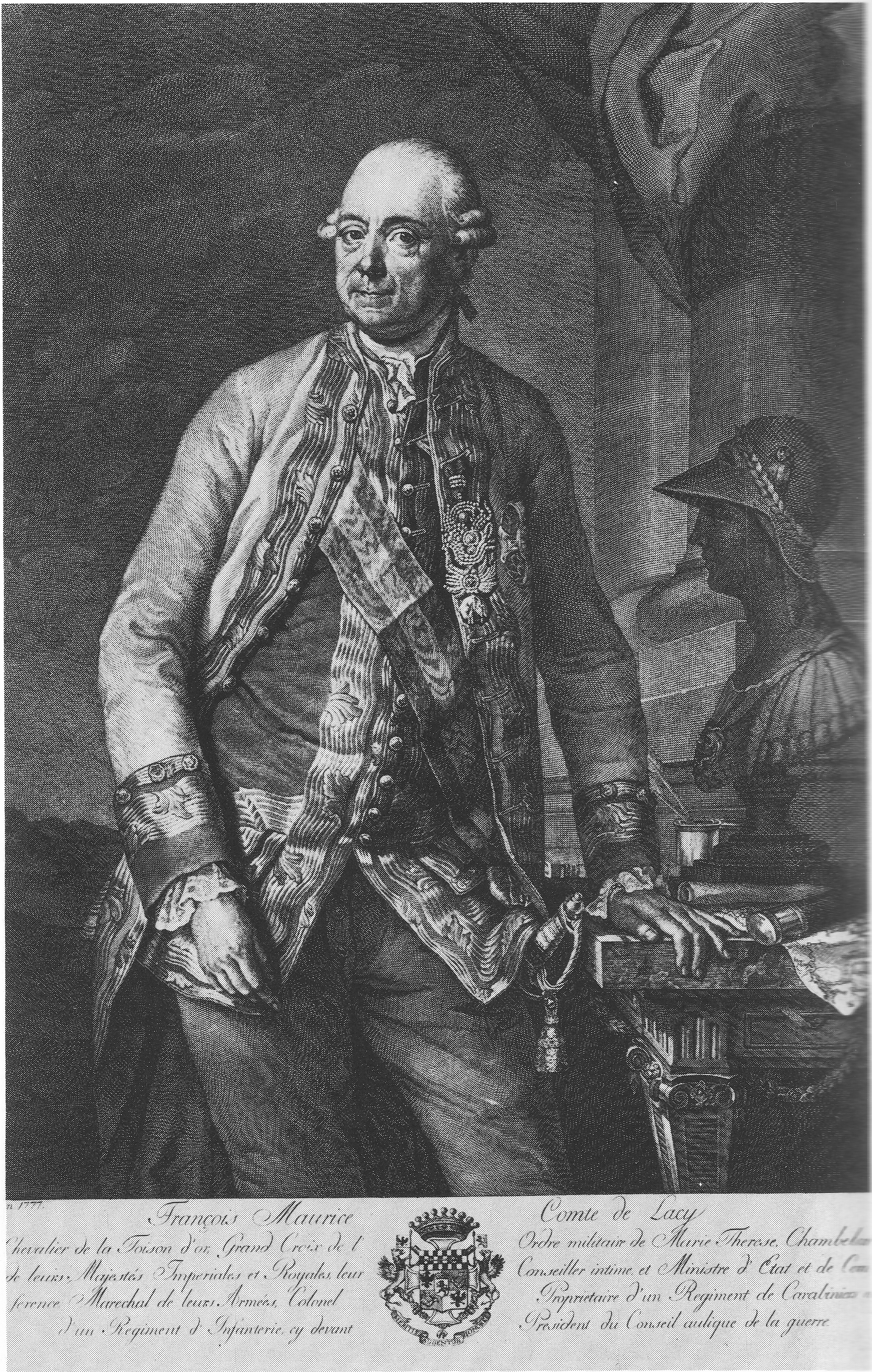 Copper etching of Count Franz Moritz von Lacy